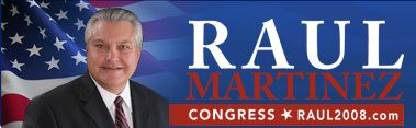 MY CAMPAIGN FOR CONGRESS